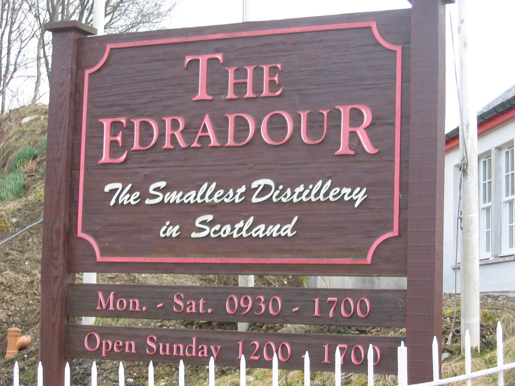 Edradour distillery, Pitlochry, Scotland.